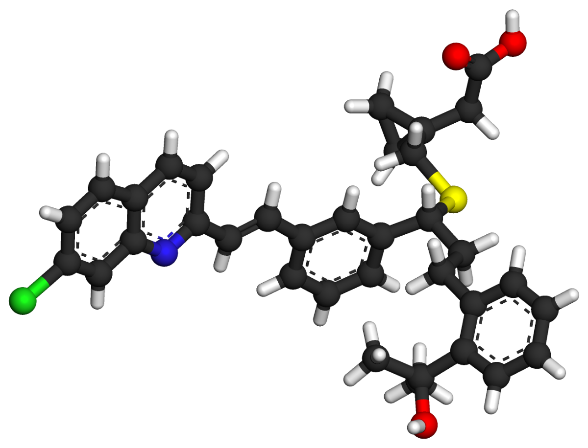 Ball-and-stick model of montelukast. Created using Accelrys DS Visualizer Pro 1.7 and GIMP. Optimized with OptiPNG. This image was created with Discovery Studio Visualizer.